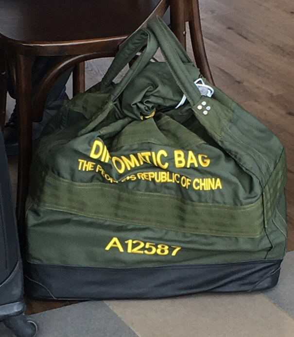 A diplomatic bag belonging to the People's Republic of China at El Dorado International Airport in Bogotá, Colombia